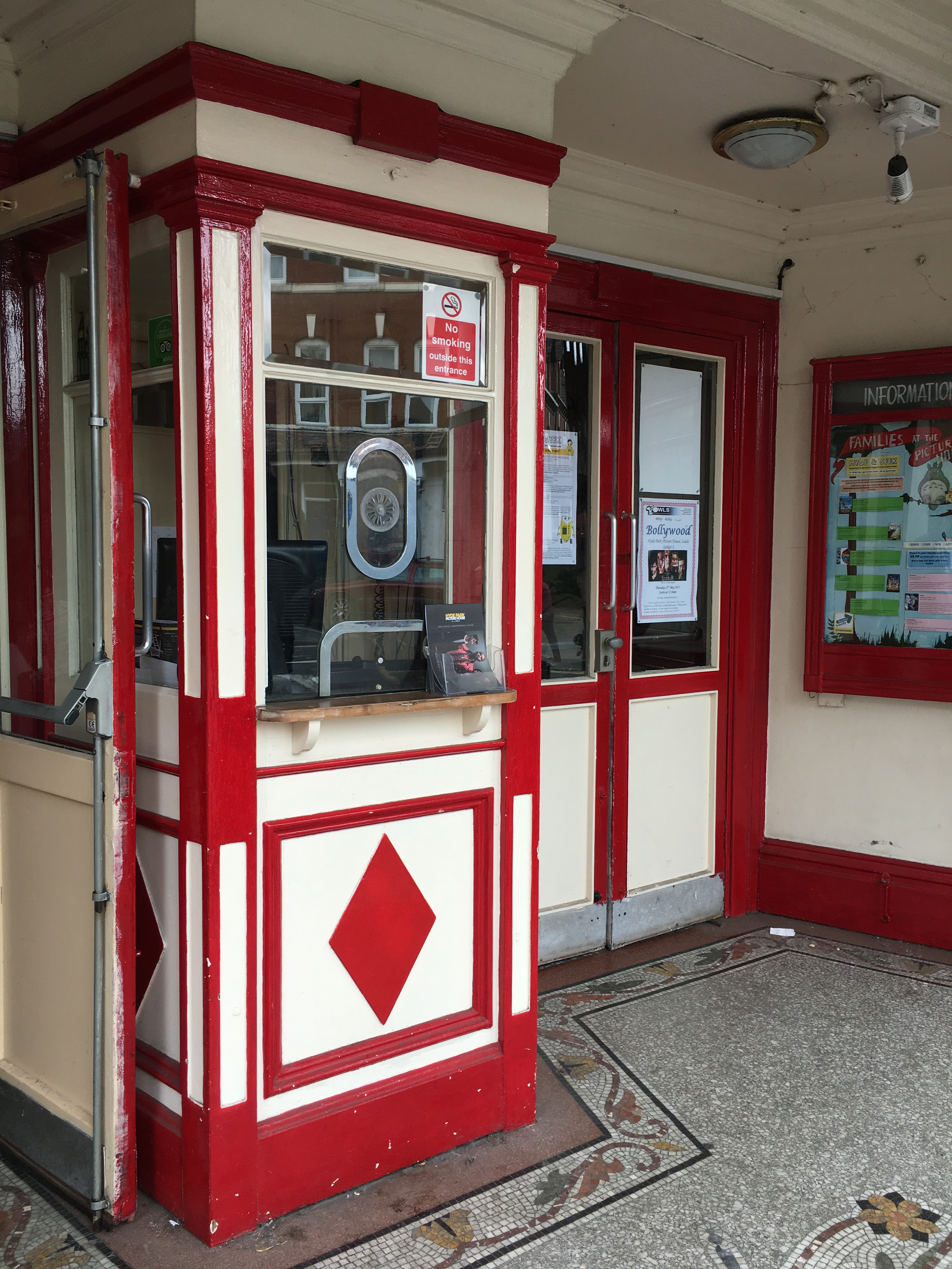 Photo of the ticket booth and entrance hall at Hyde Park Picture House, Headingley, Leeds